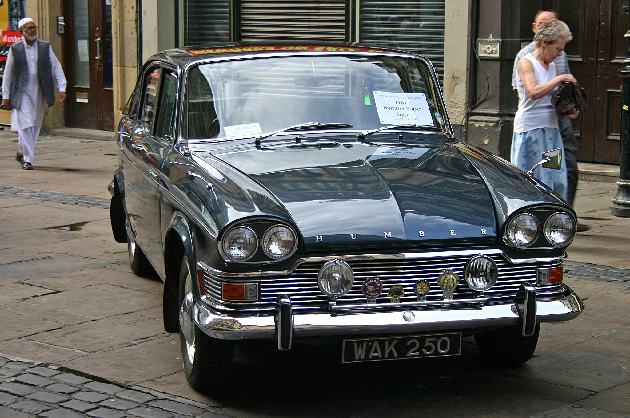 Humber Super Snipe V (DVLA) first registered 2 March 1967, 2965 cc In 1964 the final version of Humber's large saloon, the Humber Super Snipe Series V was introduced and ran until 1967 with 3,000 being sold. There was also a more luxurious version sold as the Humber Imperial